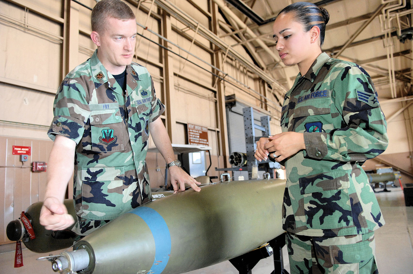 Maj. William Fry, 19th Weapons School instructor and director of operations, explains to Senior Airman Brandi Gilstrap about the specs of a ground-to-ground missile May 14, 2007, Nellis AFB, Nev. (U.S Air Force photo by Senior Airman Larry E. Reid Jr.)